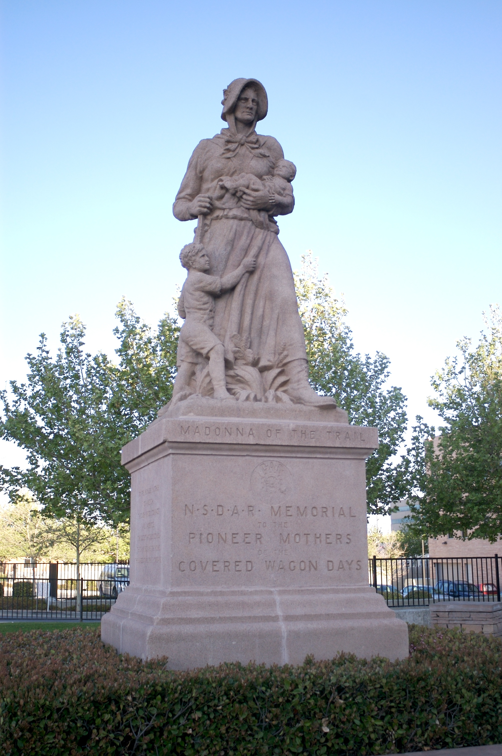 This statue is called the Madonna of the Trail and was placed by the Daughters of the American Revolution in 12 states between 1928 and 1929. This is the one that is in Albuquerque.